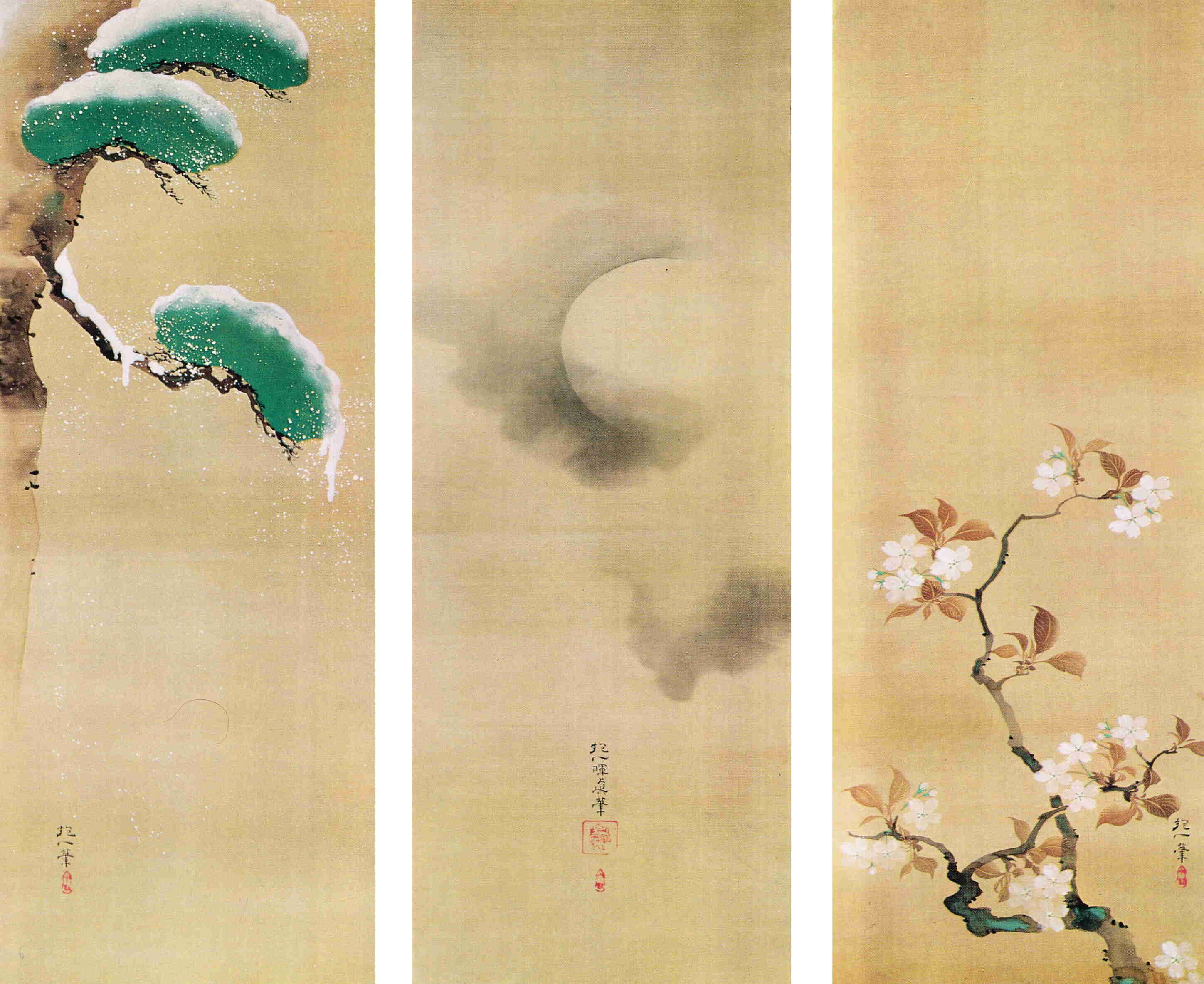 Sakai Hôitsu 3 scrolls